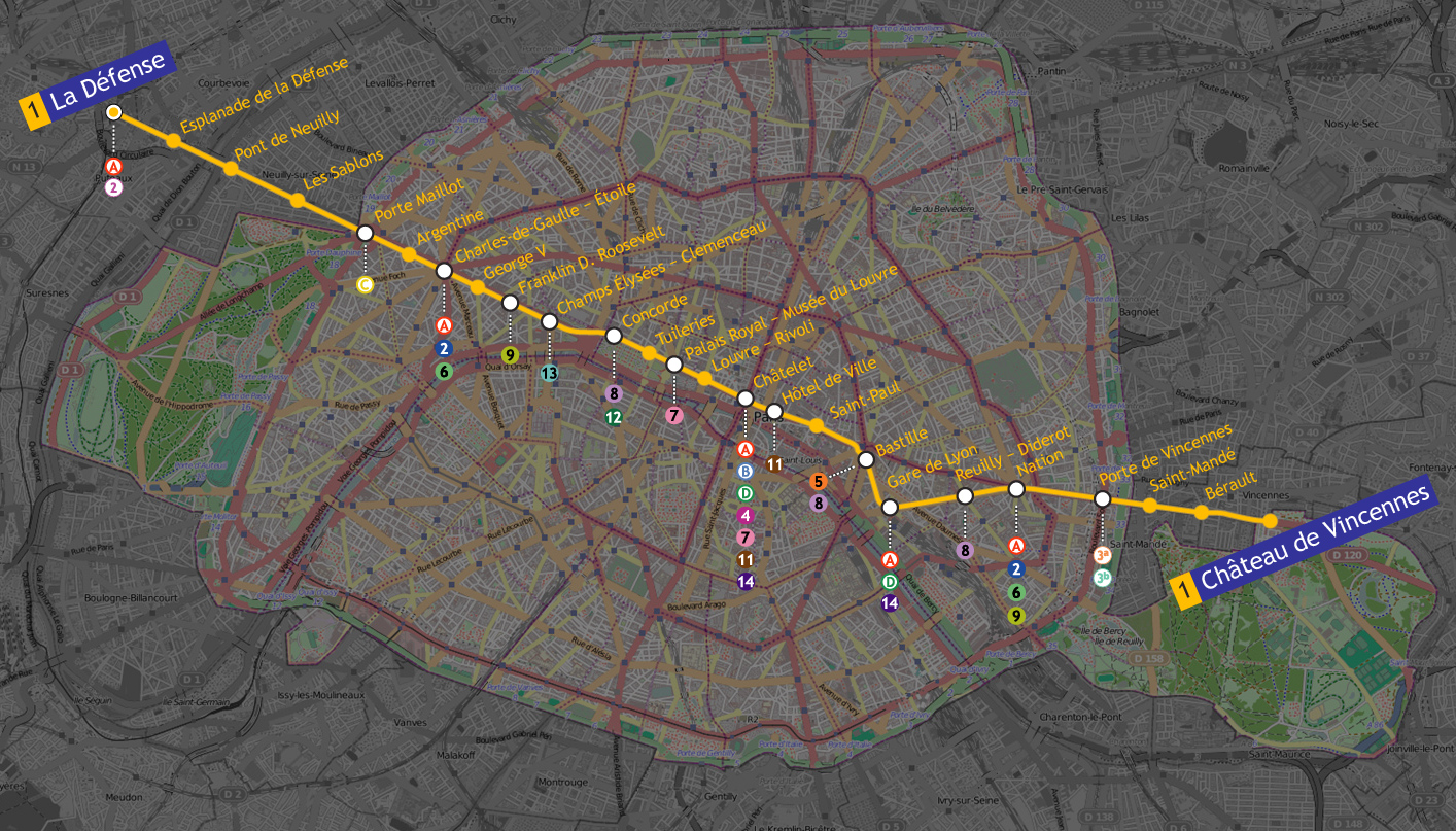 Tracé géographiquement exacte de la ligne 1